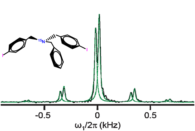 evidence of halogen bond by nmr